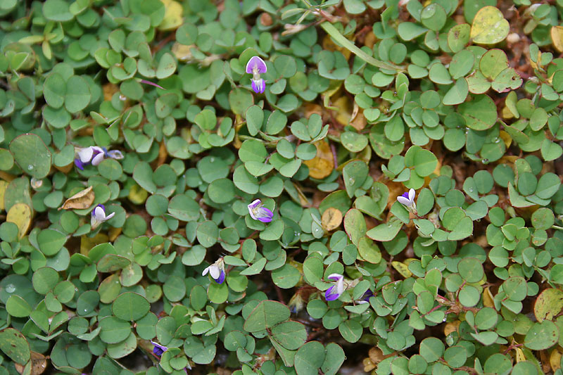 Creeping tick trefoil, Three-flower beggarweed, Tropical trefoil or Ran-methi Desmodium triflorum in Hyderabad , India.